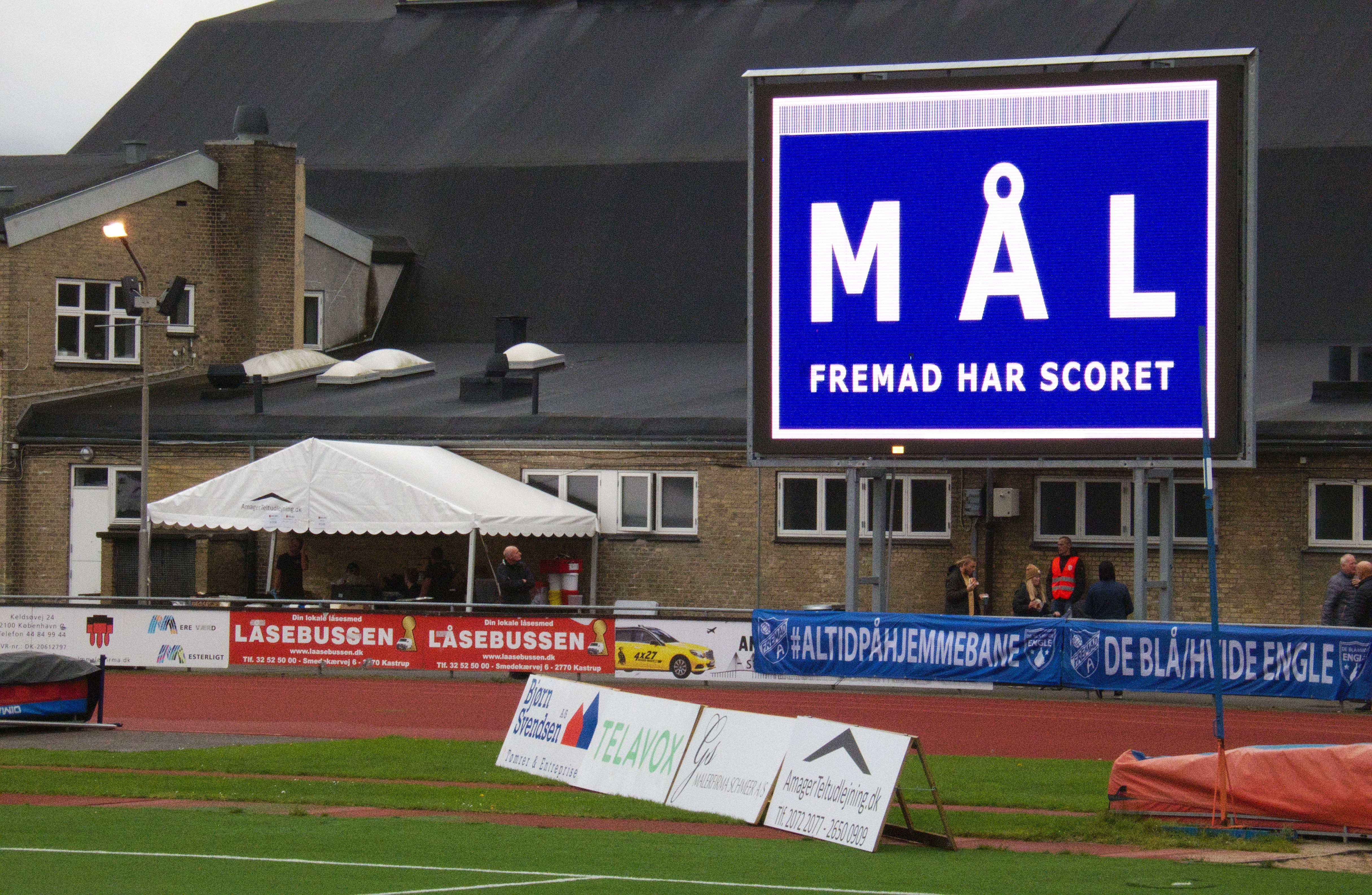 BK Fremad Amager has just scored what ended up being the winning goal in a 2-1 victory over FC Roskilde in the Danish 1st division. The big screen reads, "Goal. Fremad has scored"